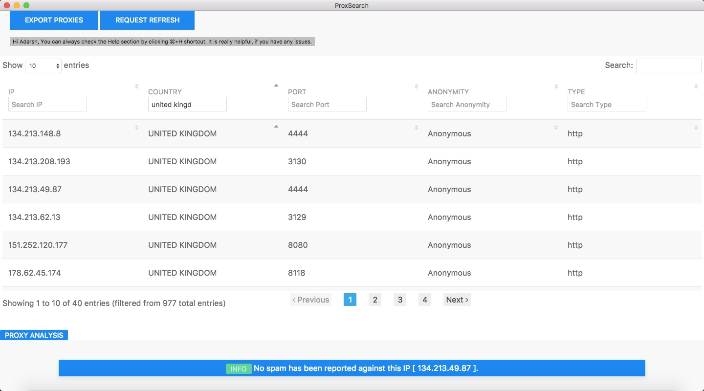 Proxy scraper tool, ProxSearch